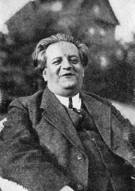 Alfred Fuchs, (1892-1941), was a Czech philosopher, journalist and translator.